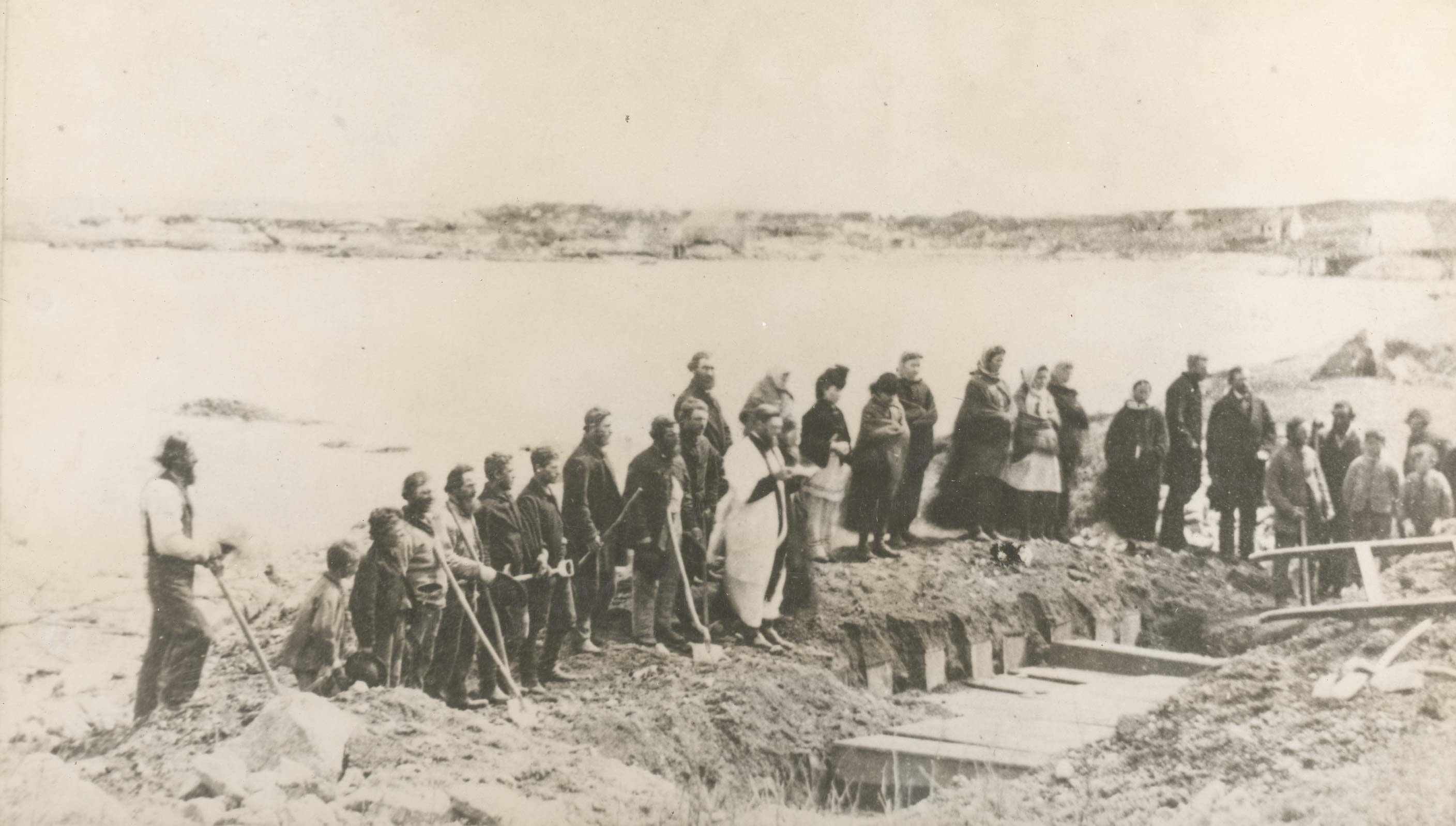 Burial service of Victims of Wreck of SS Atlantic, at Lower Prospect, Hfx. Co., N.S., April, 1873. Shows the Rev. W.J. Ancient, C. of E. rector of Turns (Terence) Bay, reading the service before an open trench in which can be seen about 14 rough wooden coffins while gathered by are fisher folk of the district & a very [sic] visitors from Halifax.